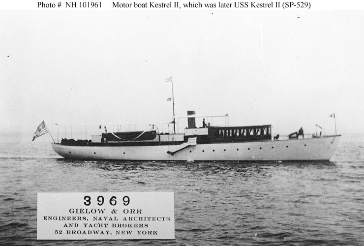 The motor yacht Kestrel II prior to her service as the United States Navy patrol vessel during World War I